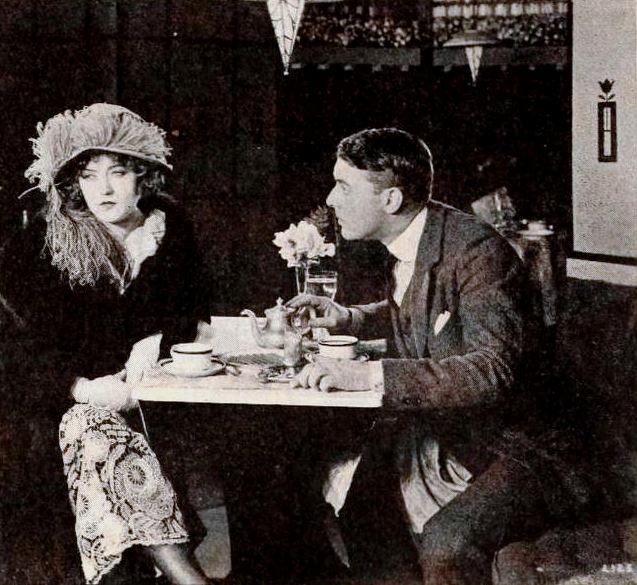 Still from the American romantic comedy Enchantment (1921) with Marion Davies and Forrest Stanley, on page 62 of the September 17, 1921 Exhibitors Herald.